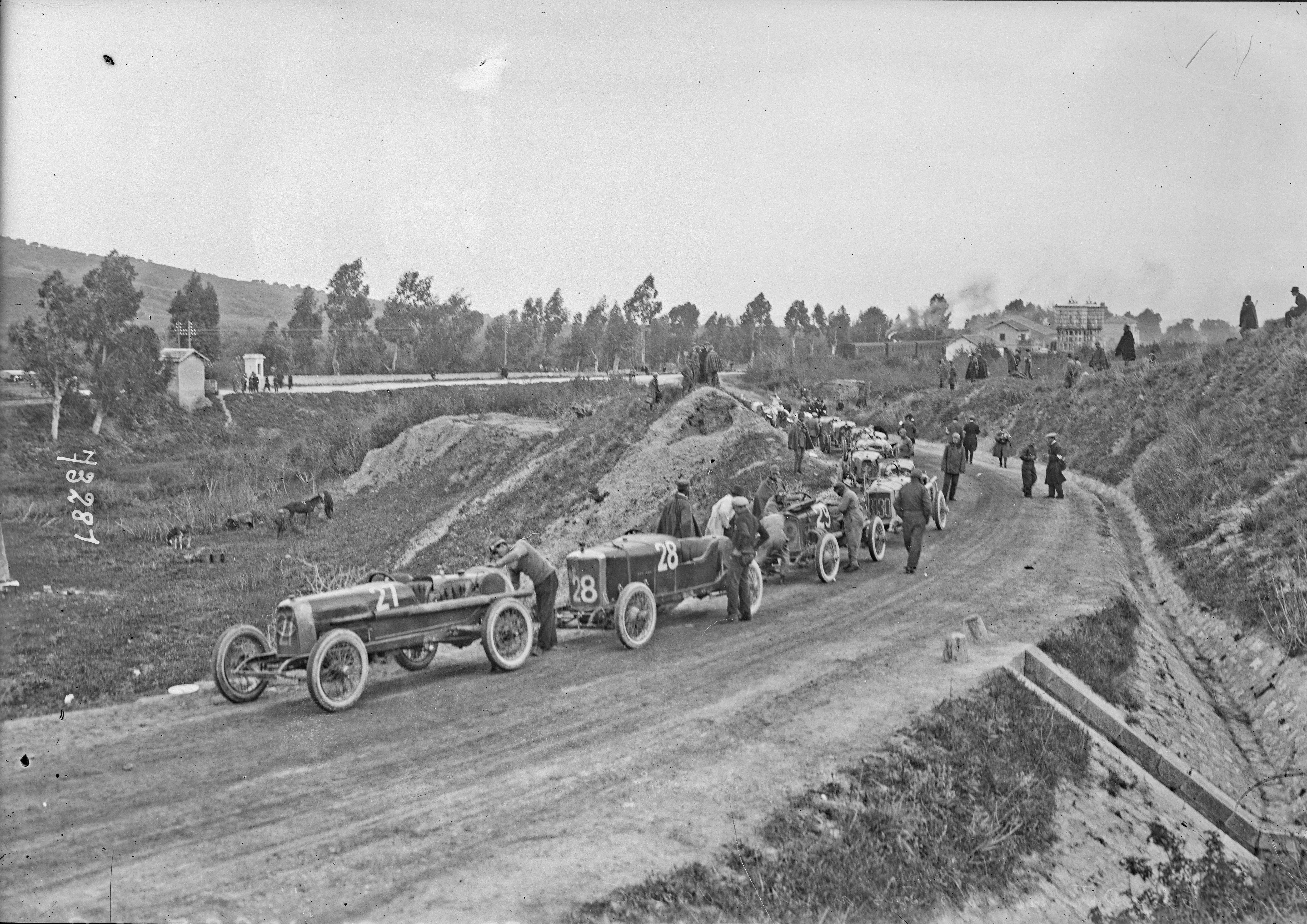 Grid at the 1922 Targa Florio.